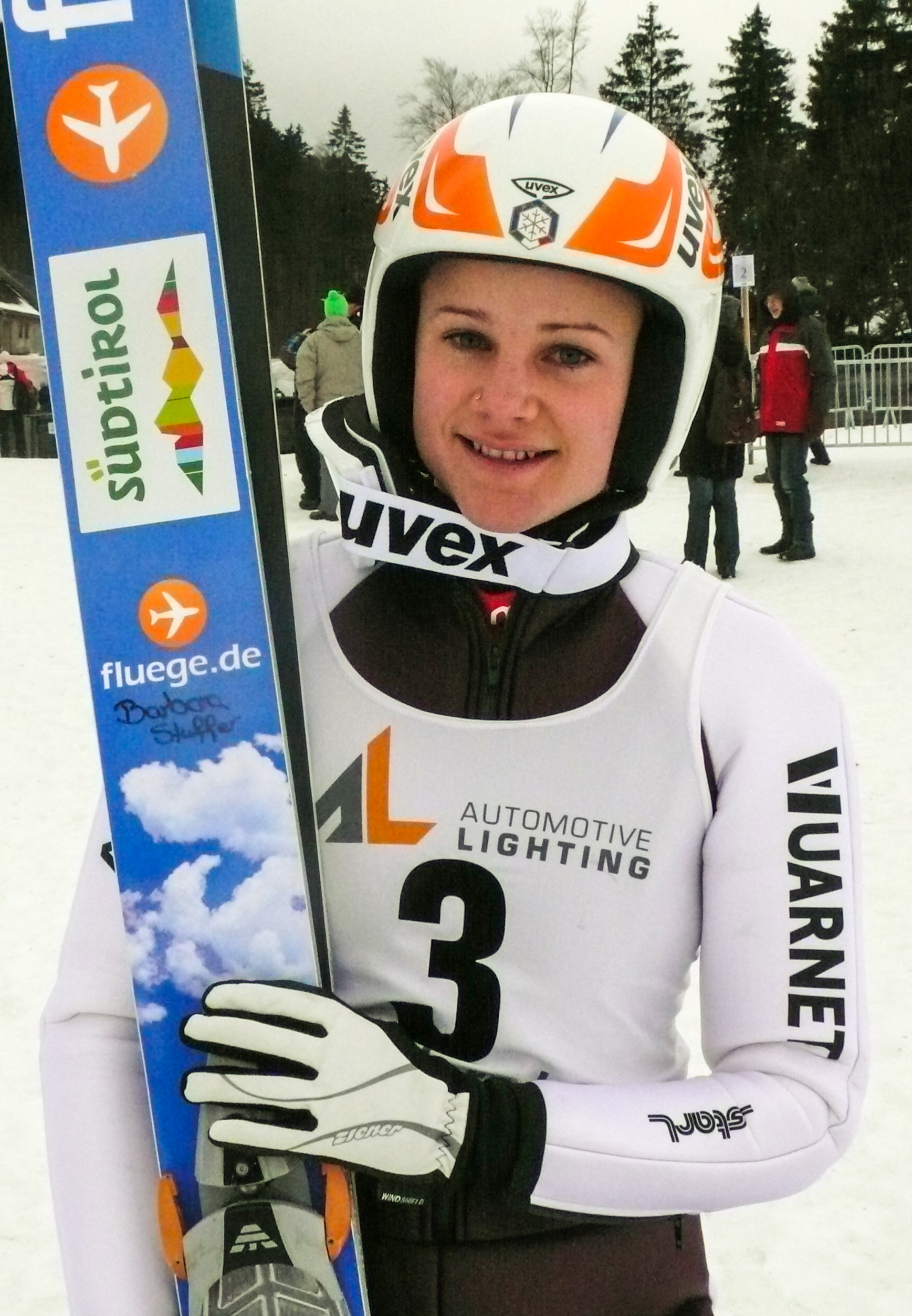 Barbara Stuffer